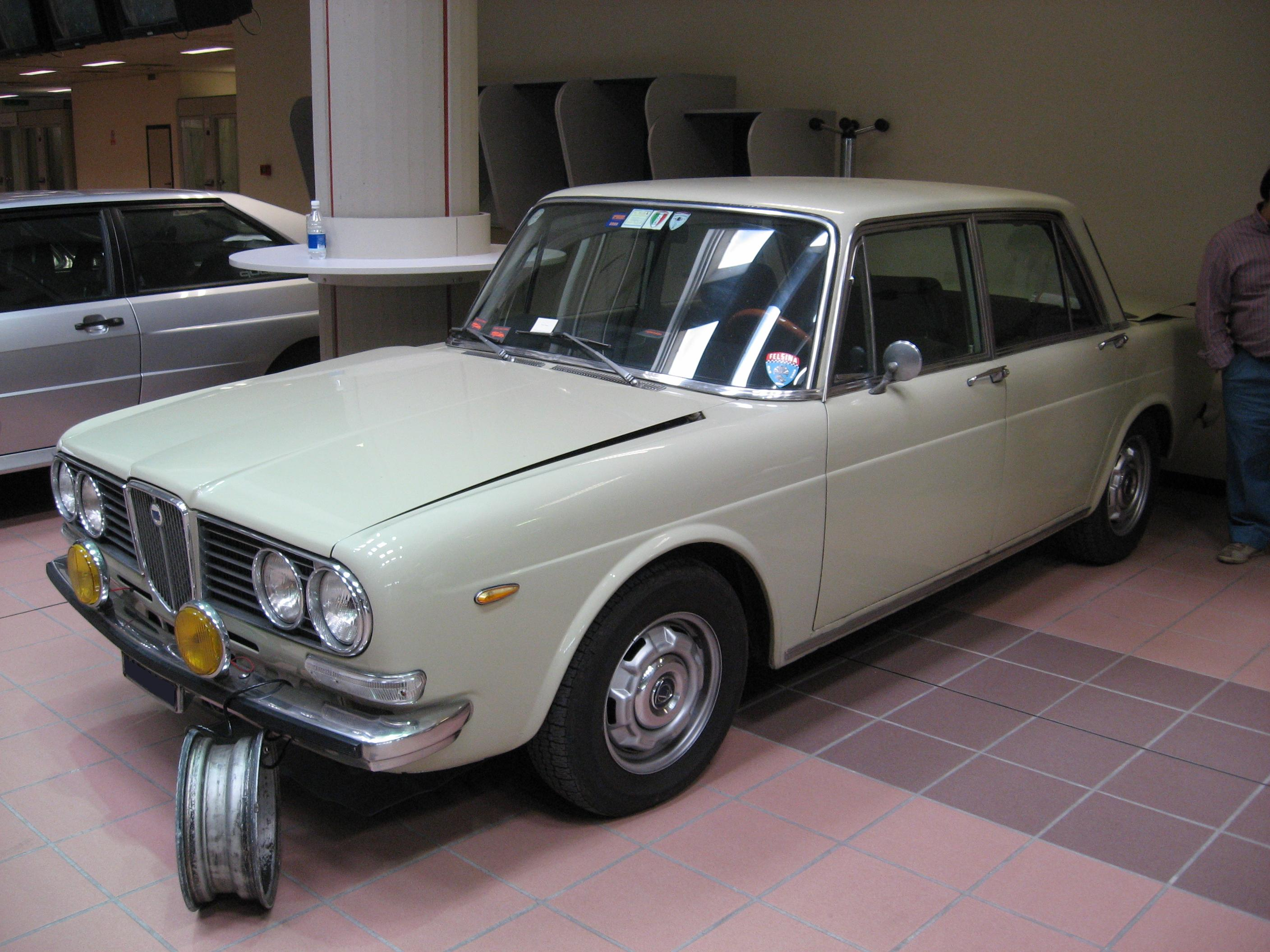 Subject: Lancia 2000 Berlina Author: Luc106 Date: 18 march 2007 City/Country: Forlì (Italy) Event: Old Time Show I release all rights in the public domain.